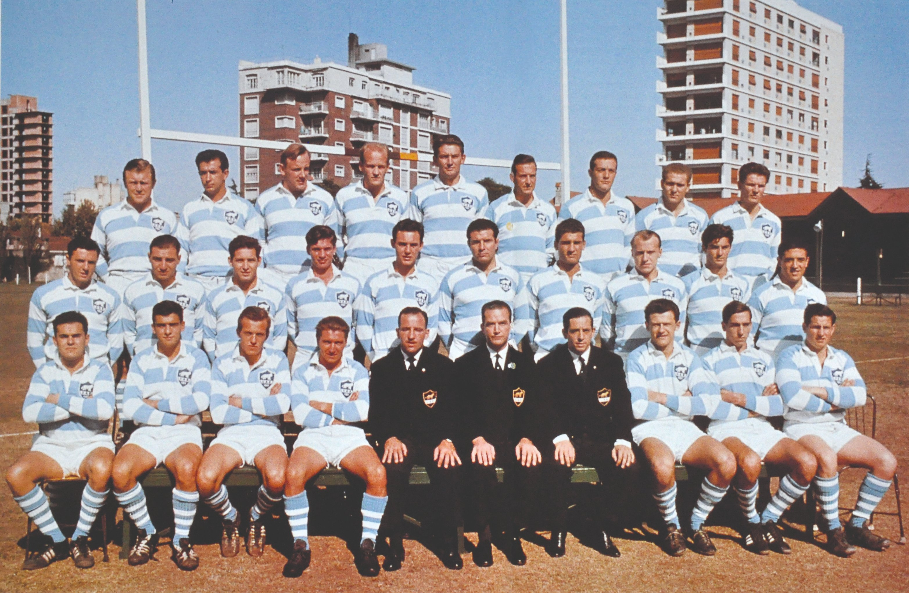 The Argentina national rugby team that toured to Rhodesia and South Africa. They are: (up) Guillermo Mc Cormick, Agustín Silveyra, Rodolfo Schmidt, Eduardo Scharenberg, Guillermo Illia, Walter Aniz, Luis García Yáñez, Ronaldo Foster, Ricardo Handley. (middle) Enrico Neri, Juan Francisco Benzi, Héctor Goti, Arturo Rodríguez Jurado, Manuel María Beccar Varela, Aitor Otaño (captain), Héctor Silva, José Luis Imhoff, Roberto Cazenave, Raúl Loyola. (down): Eduardo Poggi, Jorge Dartiguelongue, Luis Mariano Gradín, Adolfo Marcelo Etchegaray, Angel Guastella (coach), Emilio Jutard (manager), Alberto Camardón (main coach), Eduardo España, Marcelo Pascual, Nicanor González del Solar.